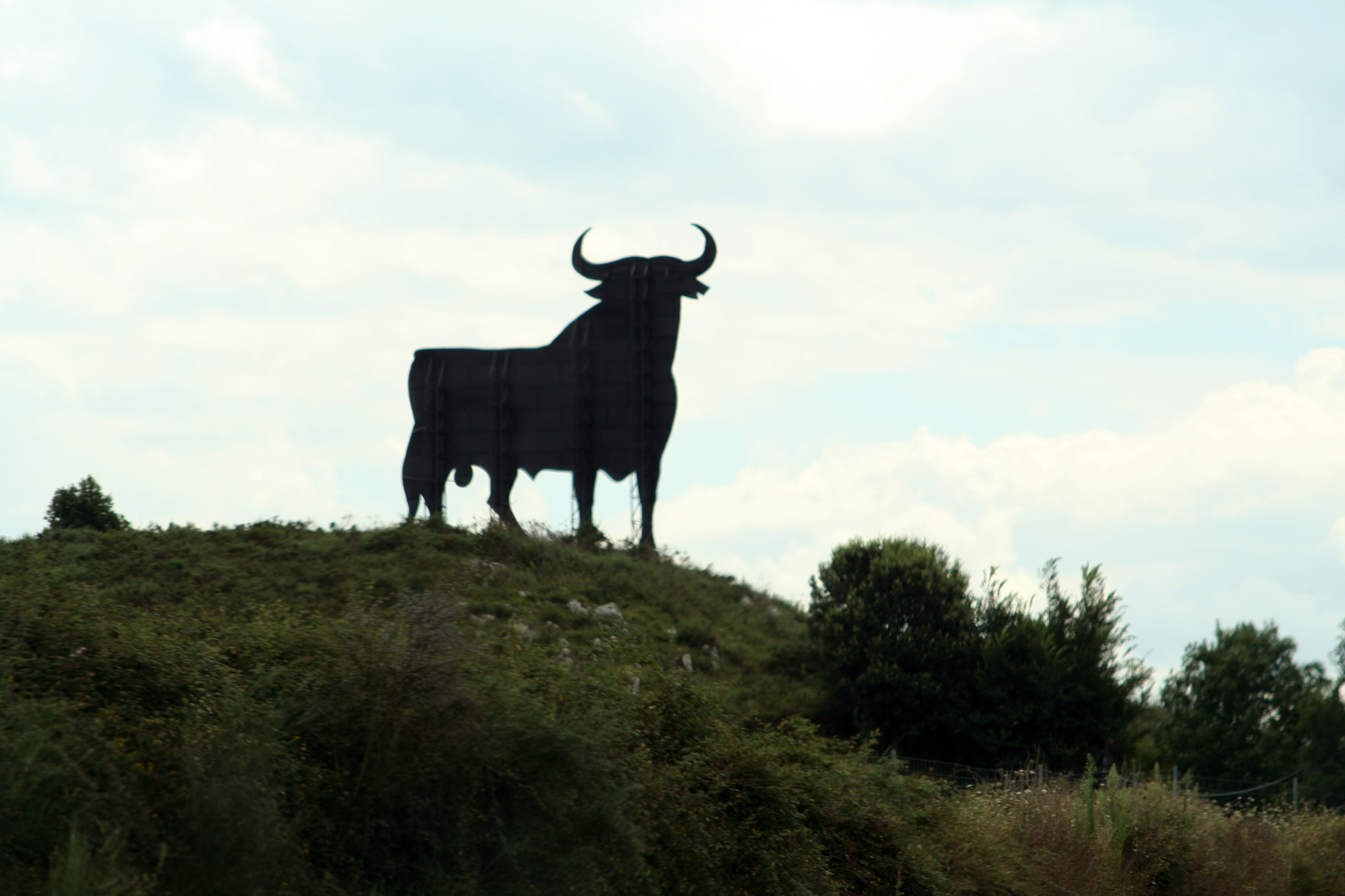 Osborne's bull in Llanes (Asturias, Spain).